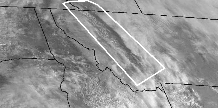 The descending winds dry the airs mass and Chinook arch visible in Western Montana/Southwestern Alberta in the highlighted white box on this satellite photo.